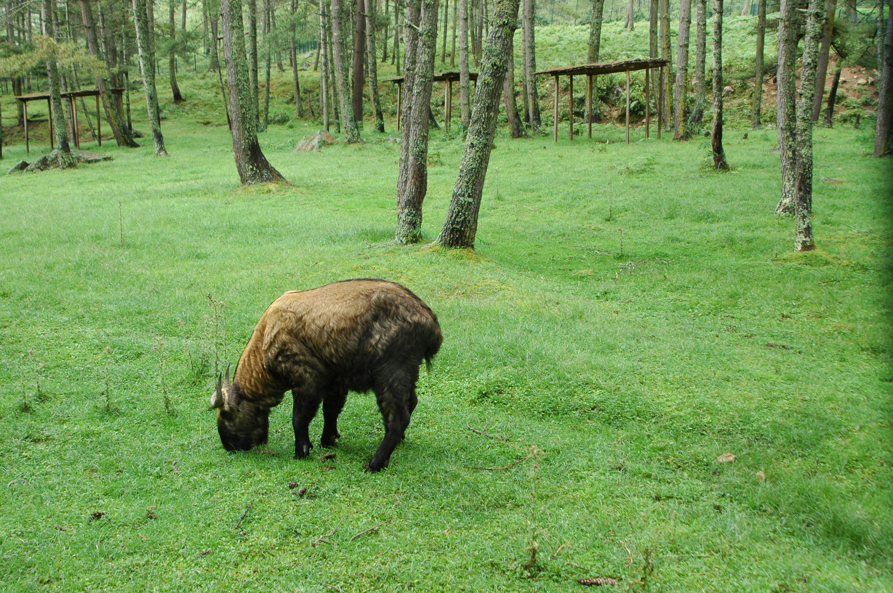 Takin, The National Animal of Bhutan, grazing in the Preserve. (presumably Motithang Takin Preserve)